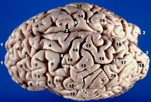 Human brain - left and right hemispheres - superior-lateral view Polus frontalis Polus occipitalis Fissura longitudinalis cerebri Gyrus frontalis superior Gyrus frontalis medius Gyrus frontalis inferior Sulcus frontalis superior Sulcus frontalis inferior Sulcus praecentralis Sulcus centralis Sulcus postcentralis Sulcus intraparietalis Sulcus lateralis (Fissura Sylvii) Gyrus praecentralis Gyrus postcentralis Lobulus parietalis superior Lobulus parietalis inferior Lobus occipitalis Gyrus temporalis superior Gyrus supramarginalis (?) (font: arial black, size: 10)